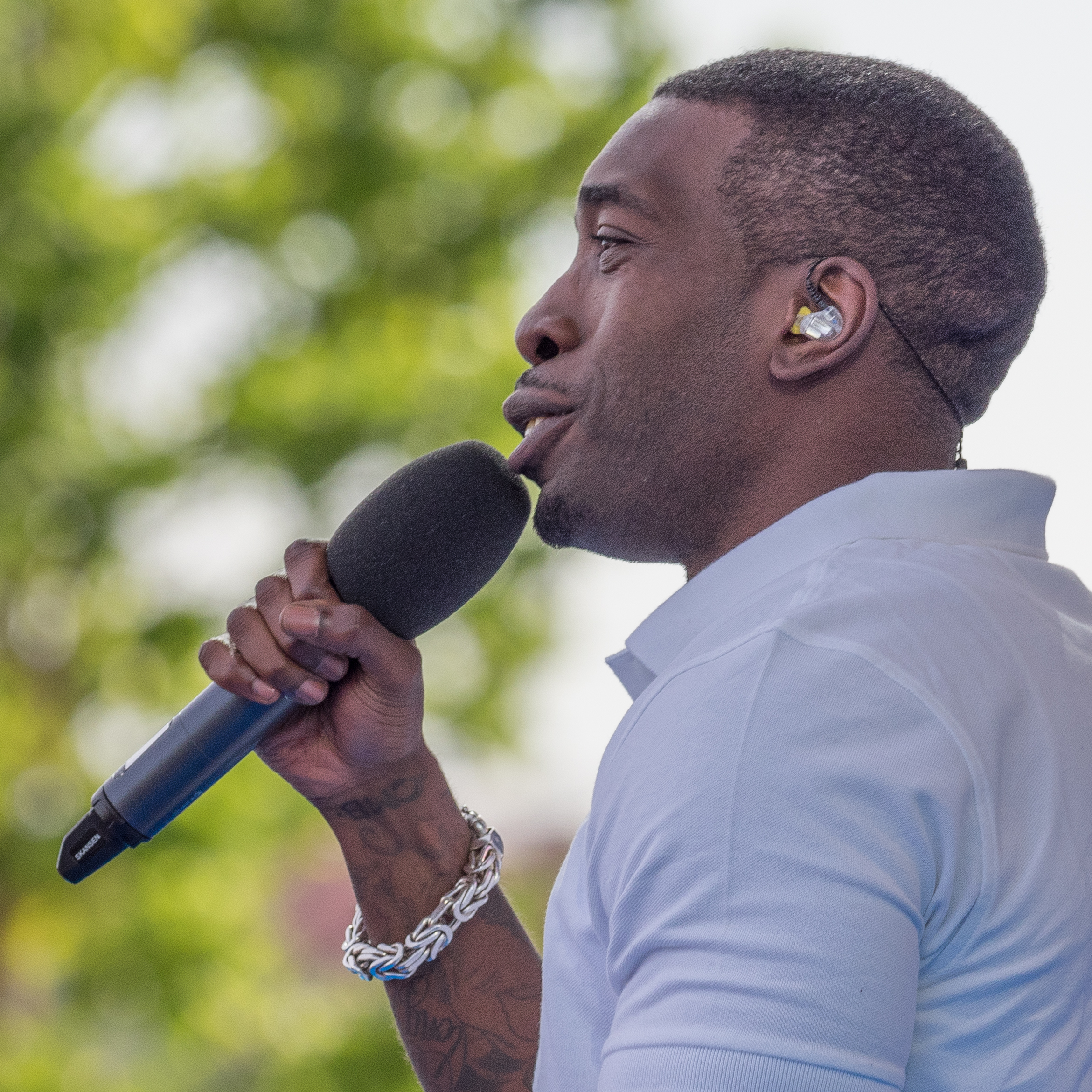 National Day of Sweden 2016 at Skansen Stockholm 6 of June